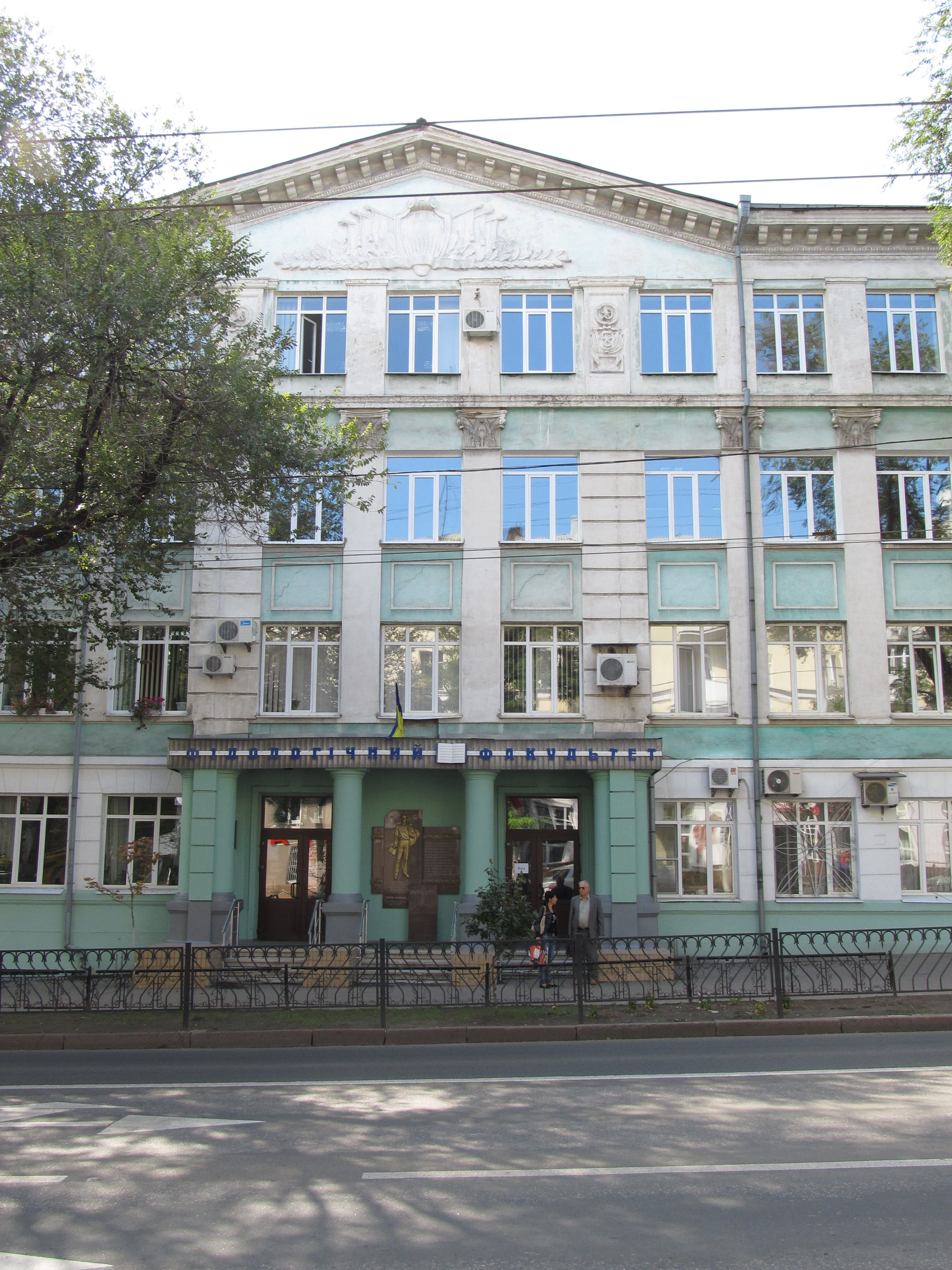 House, where studied Stus V., Ukrainian poet